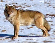 A Tibetan wolf Canis lupus chanko in Spiti Valley, Himachal Pradesh